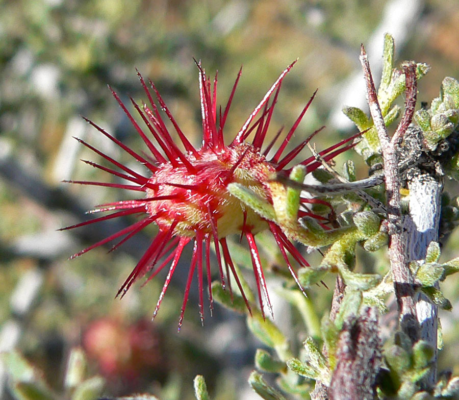 Krameria erecta in Calico Basin, Spring Mountains, west of Las Vegas, Nevada